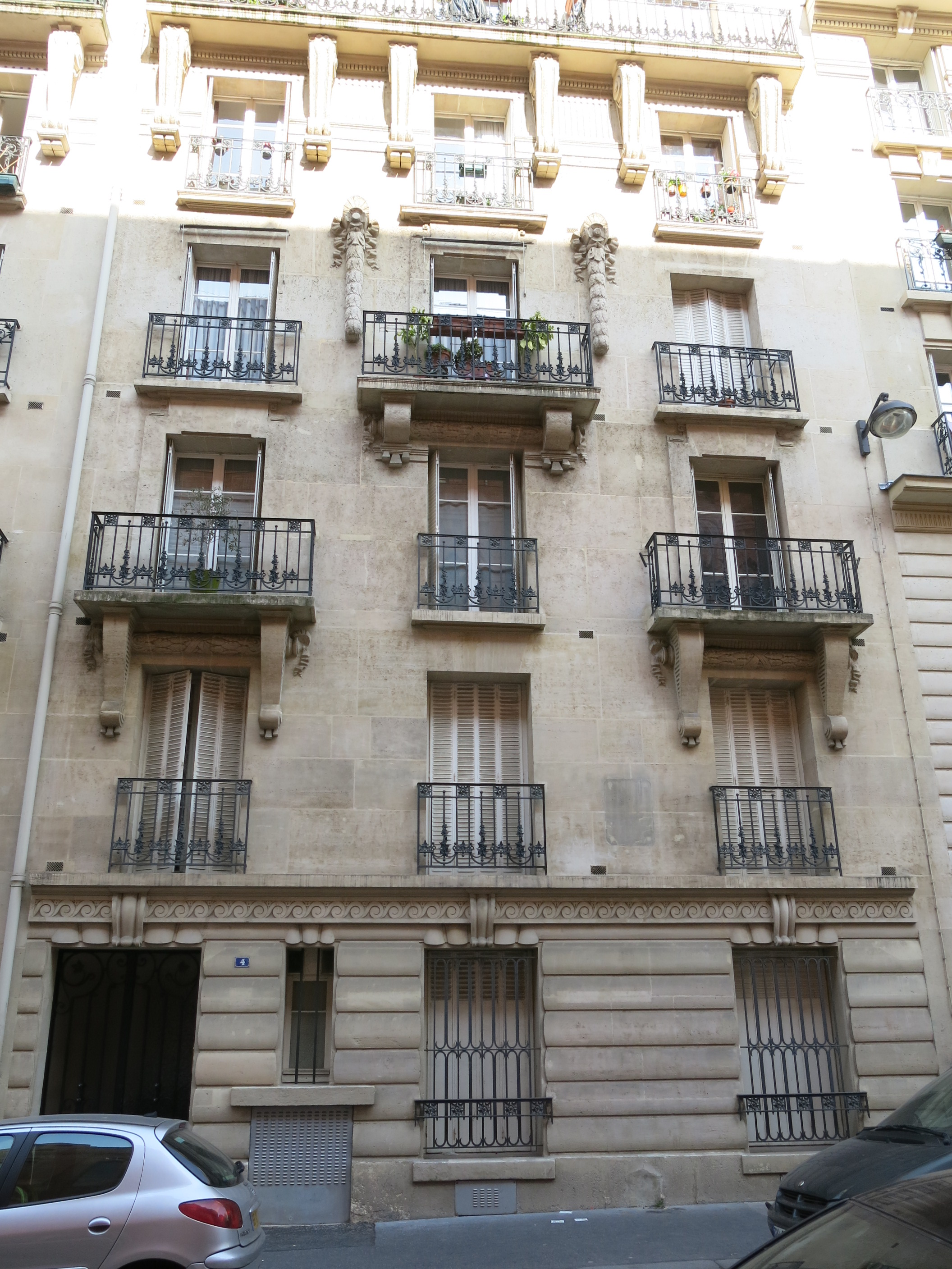 Building at 4 rue Marie-Rose, Paris 14th arrond. where Lenin lived from 1907 to 1909.